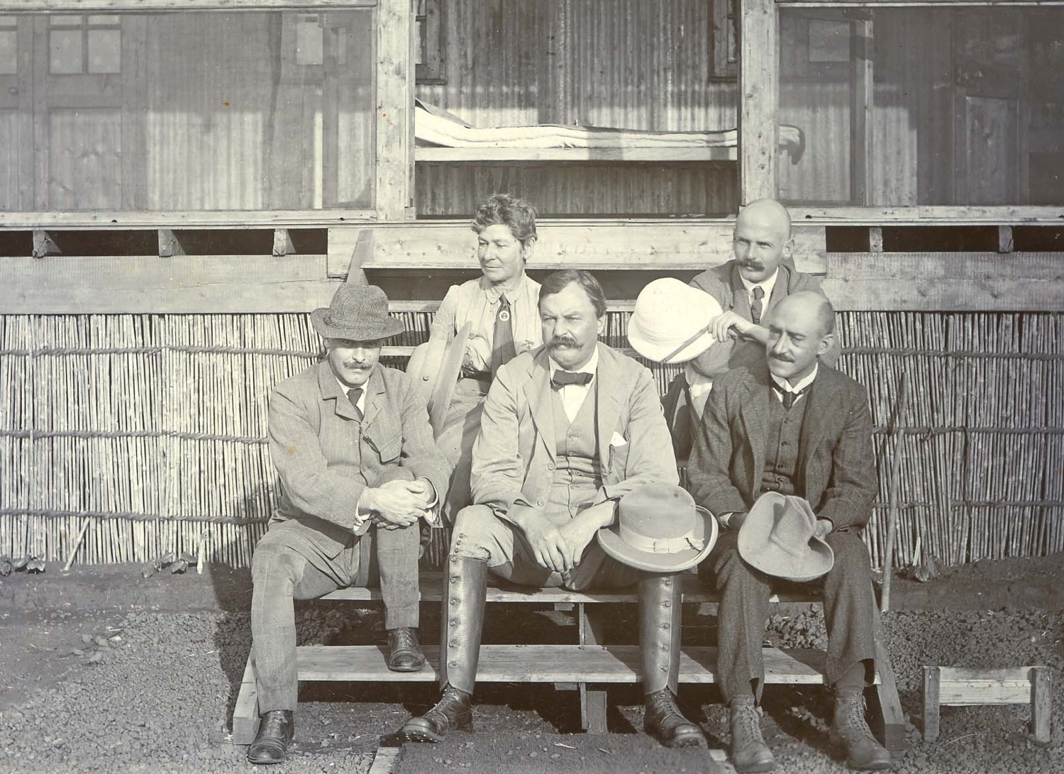 L-R Percival Mackie, Lady Bruce, Sir David Bruce, H.R. Bateman, Albert Ernest Hamerton (RAMC). Photo courtesy of Peter and Joanna Mackie